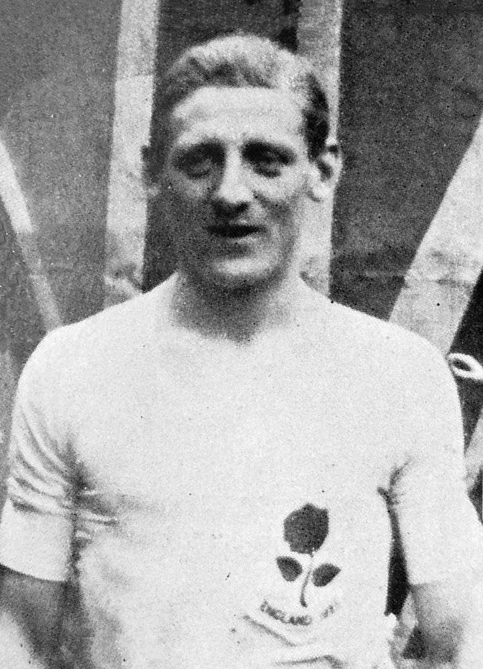 Ernie Harper of Hallamshire Harriers and Athletic Club wearing an England cross-country vest